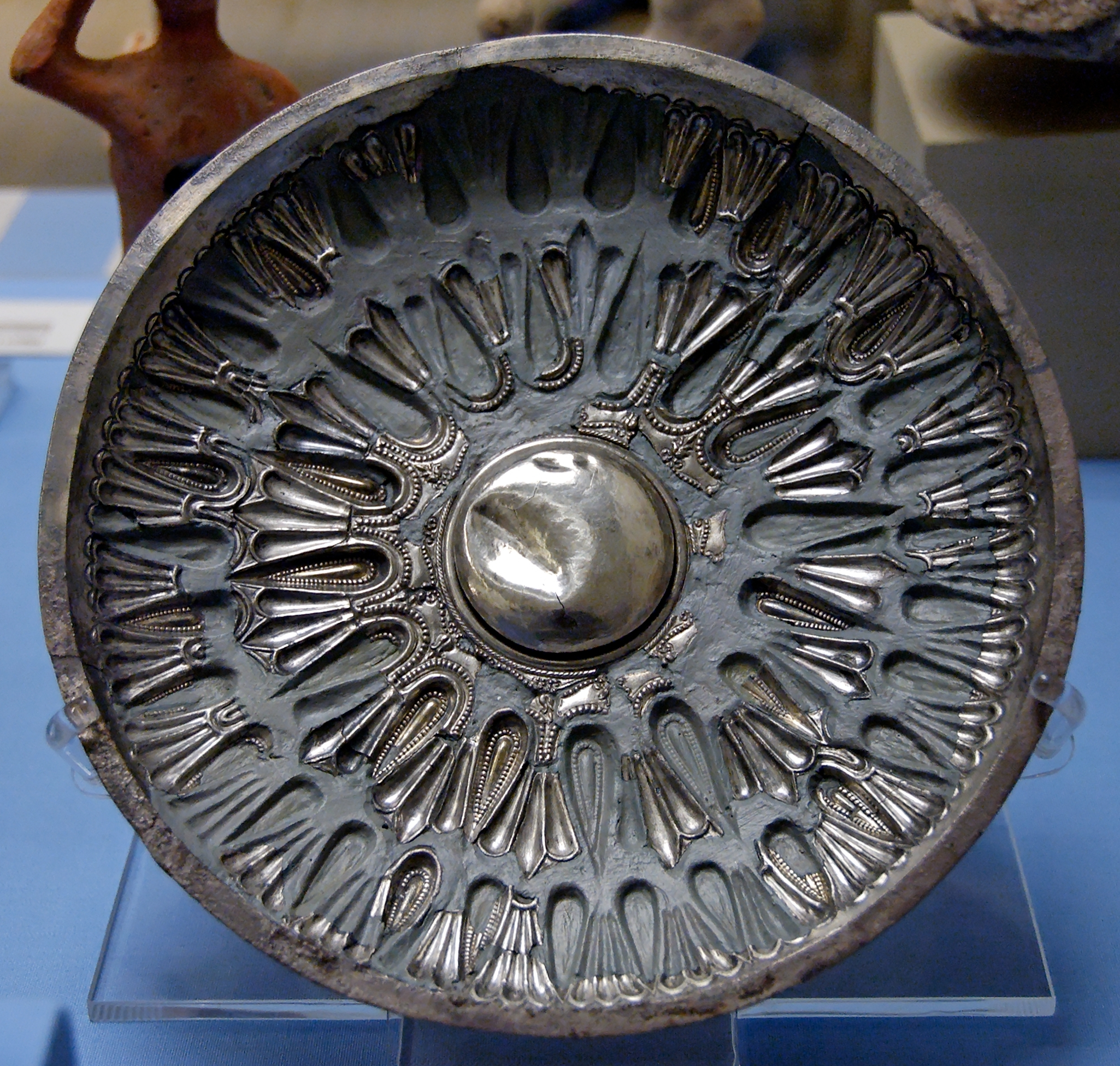 Silver phiale (libation bowl) of Persian type, made ca. 400–350 BC. From Ithaka, Greece.